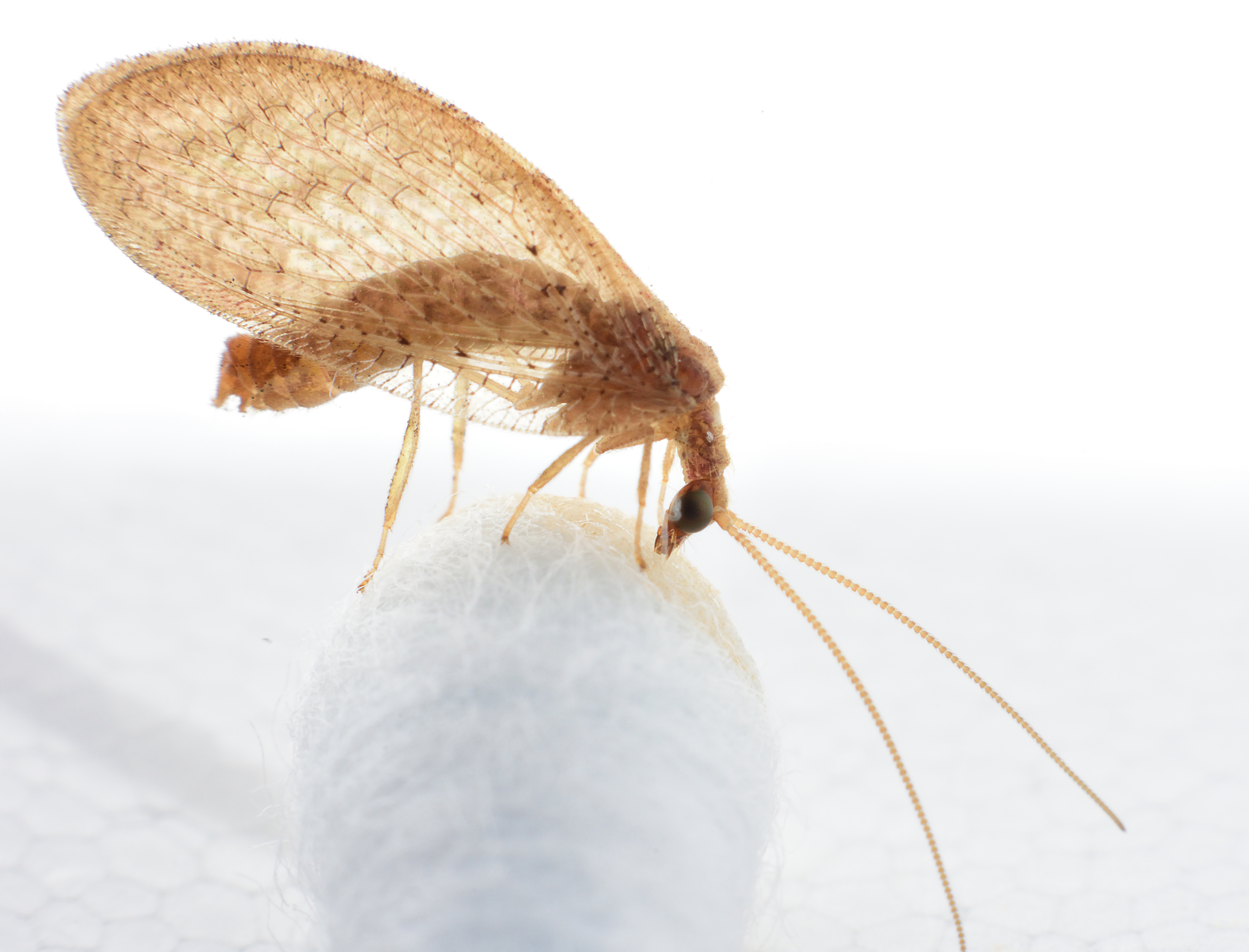 Neuroptera: Hemerobiidae, male over a cotton swap, in Mexico